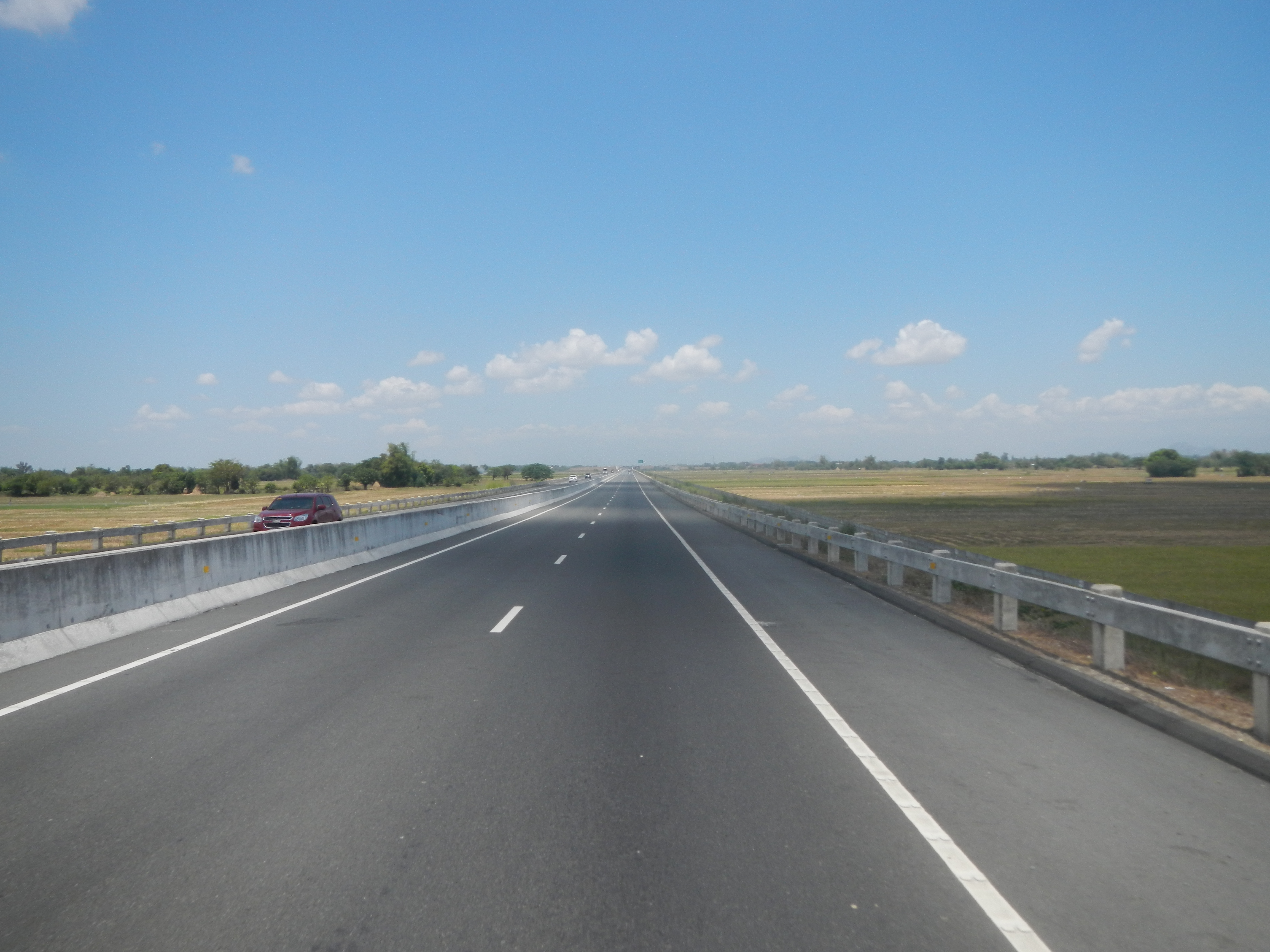 Tarlac–Pangasinan–La Union Expressway (Tarlac City-Victoria-Pura Segment) of the Tarlac–Pangasinan–La Union Expressway, Interchange (road) Trumpet interchange; Tarlac City - Pura Segment October 25, 2013, Opening the Tarlac City - Pura segment of the TPLEX Tarlac City-Victoria, Tarlac-Pura, Tarlac section; Barangay Amucao,Tarlac City is the southern terminus of TPLEX, Exits connected to Subic-Clark-Tarlac Expressway Section 1A, Barangay Villa Bacolor, Tarlac City, to Barangay Baculong, Victoria, Tarlac; this exit connects to Tarlac-Victoria Road, Westbound goes to Tarlac City, Eastbound goes to Barangay Baculong and to Victoria, Tarlac, then Barangay Singat, Pura, Tarlac this exit connects to Gerona-Guimba Roadm Westbound goes to Gerona, Eastbound goes to Guimba, Talugtug, Muñoz, San Jose and Cagayan Valley Region).